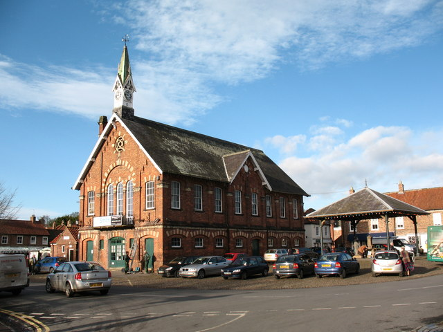 Easingwold Town Hall. An attractive small town with something of a Victorian monster right in the middle of the Market Place. Totally out of place and with no regard for local styles or materials.